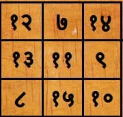 Shani Yantra